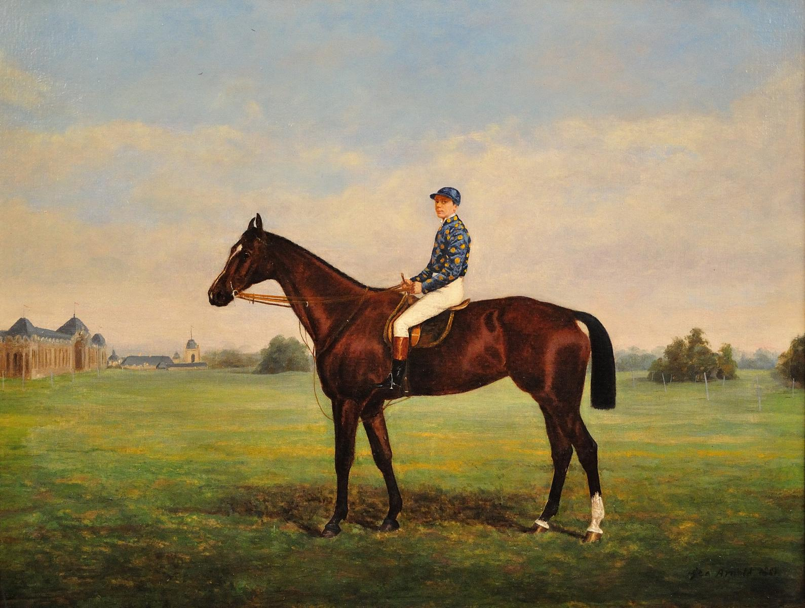 Maurice Ephrussi's Prix de Diane winner Serpolette II at Chantilly Signed & dated 1881 bas droite Oil on Canvas 63cm x 48cm